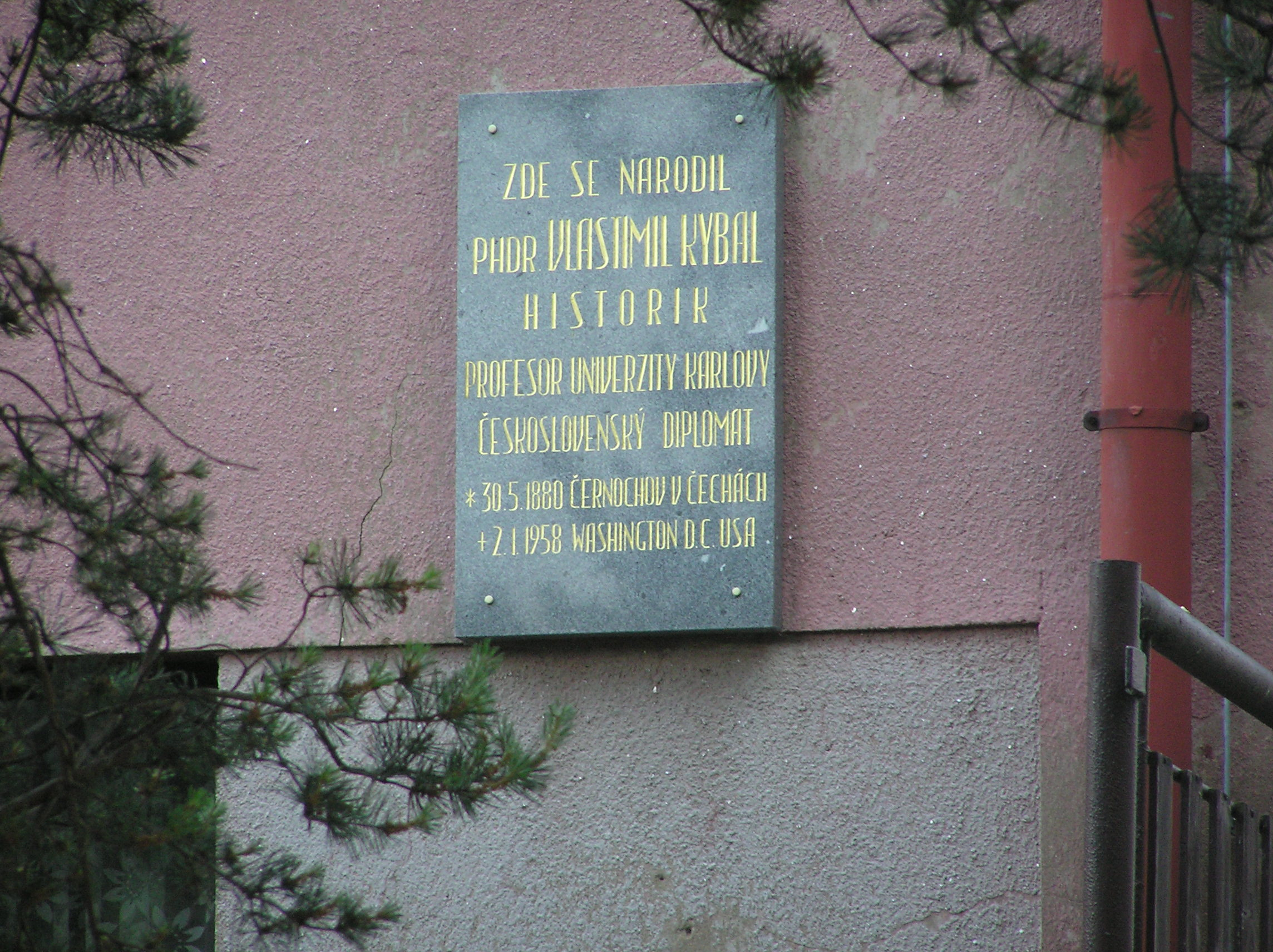 Plaque of Vlastimil Kybal on his birthplace in Černochov